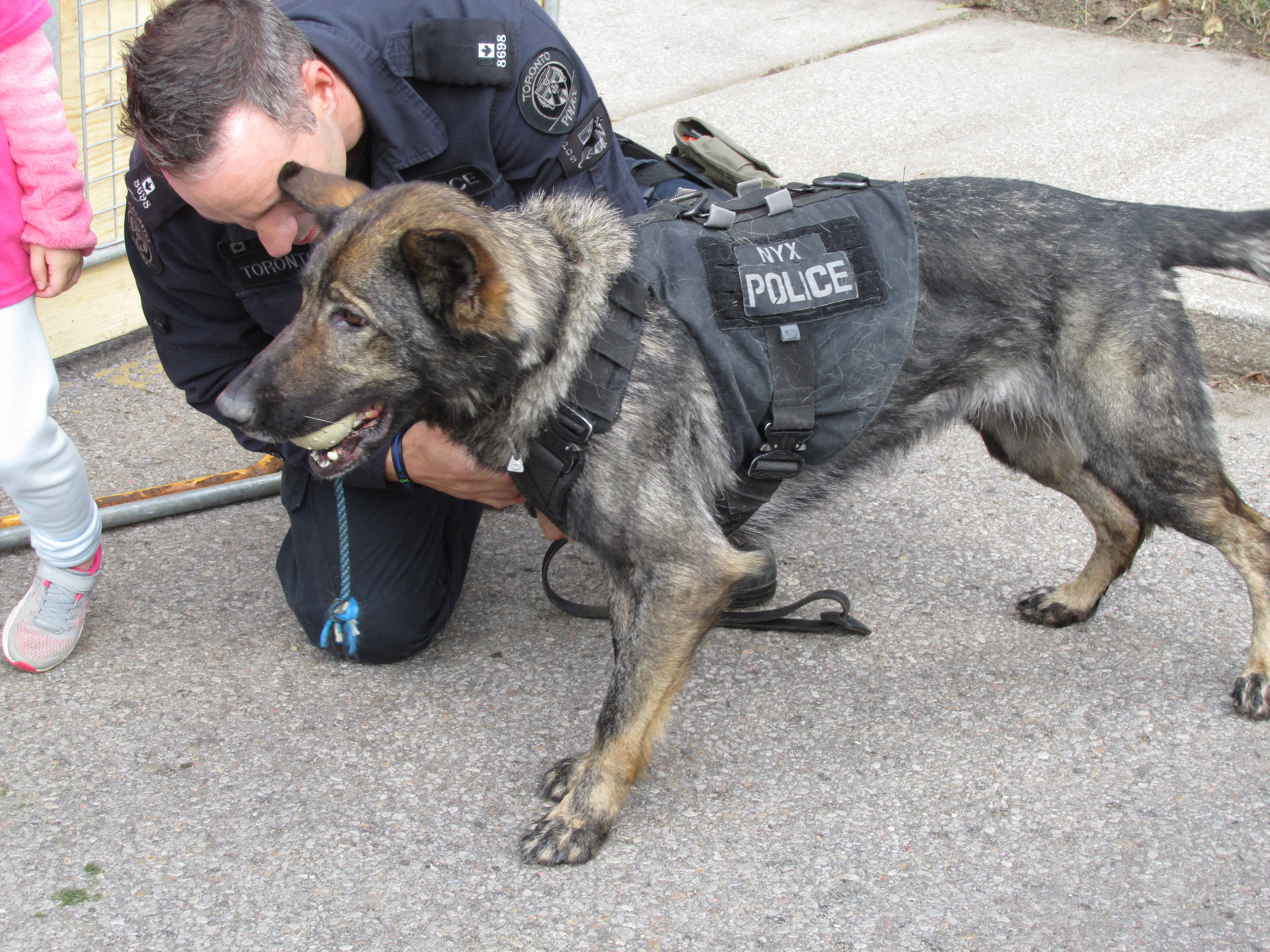 A Toronto Police Service dog named Nyx at an open house event 44 Beechwood Avenue, Toronto, Ontario, Canada. Held by 8698.